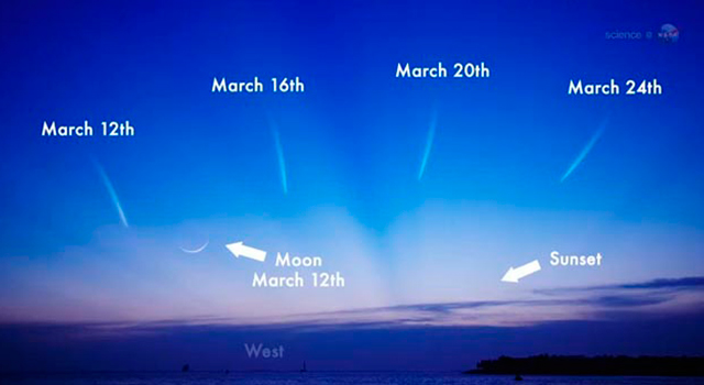 Comet C/2011 L4 (PANSTARRS) will be visible to Northern hemisphere observers near the cresent moon on March 12th.